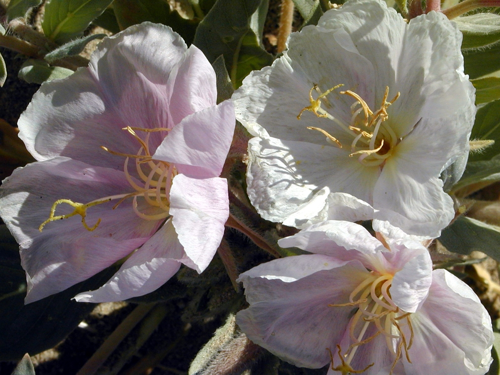 These night-blooming Evening Primrose are only found on the Eureka Dunes in northern Death Valley.